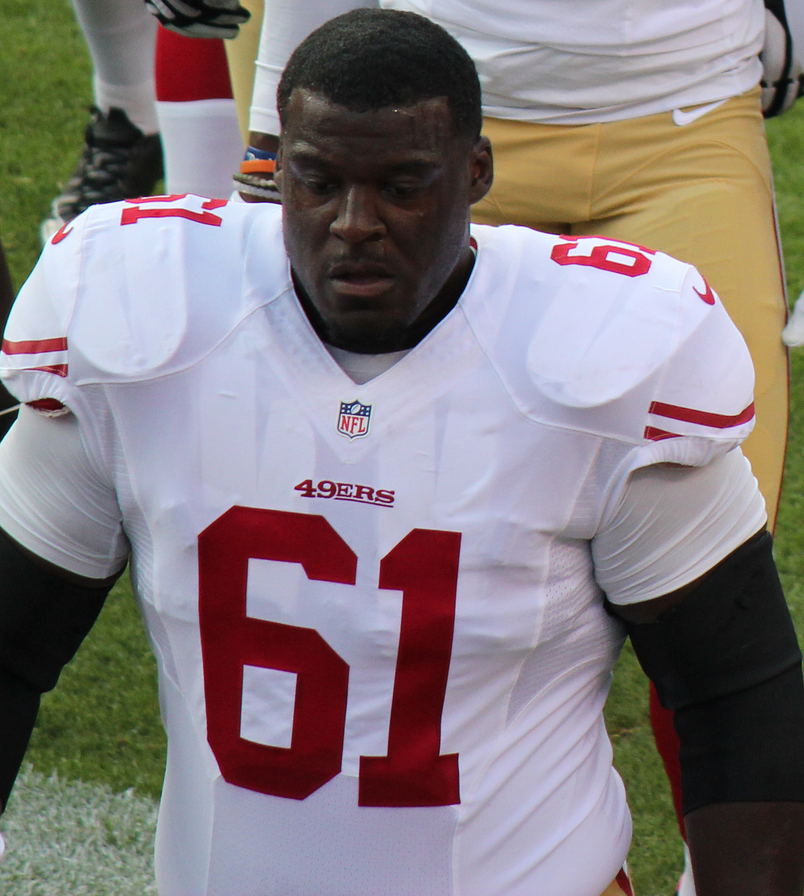 Andrew Tiller, a player on the National Football League.